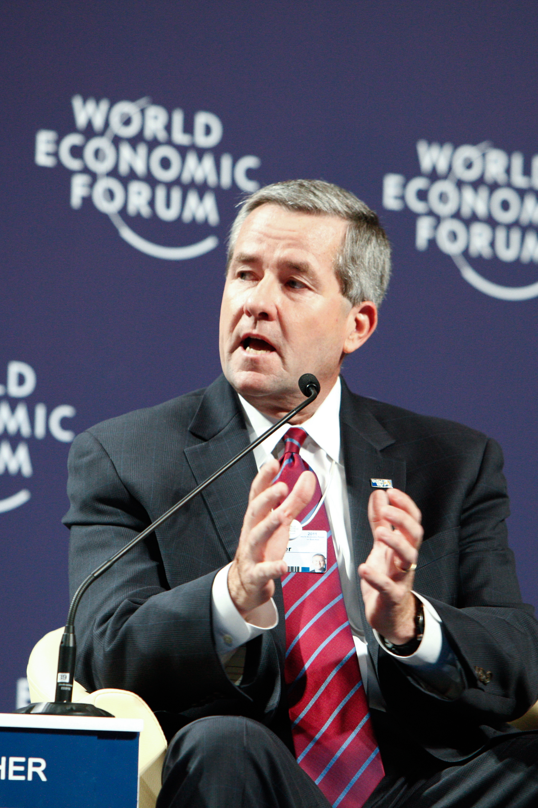 JAKARTA/INDONESIA, 12JUN11 - Brian A. Gallagher, President and Chief Executive Officer, United Way Worldwide, USA; Global Agenda Council on Emerging Multinationals, captured during Managing Global Disruptions- Asia's Risk Response Mechanisms at the World Economic Forum on East Asia in Jakarta, Indonesia, June 12, 2011. Copyright World Economic Forum ( by Sikarin Thanachaiary